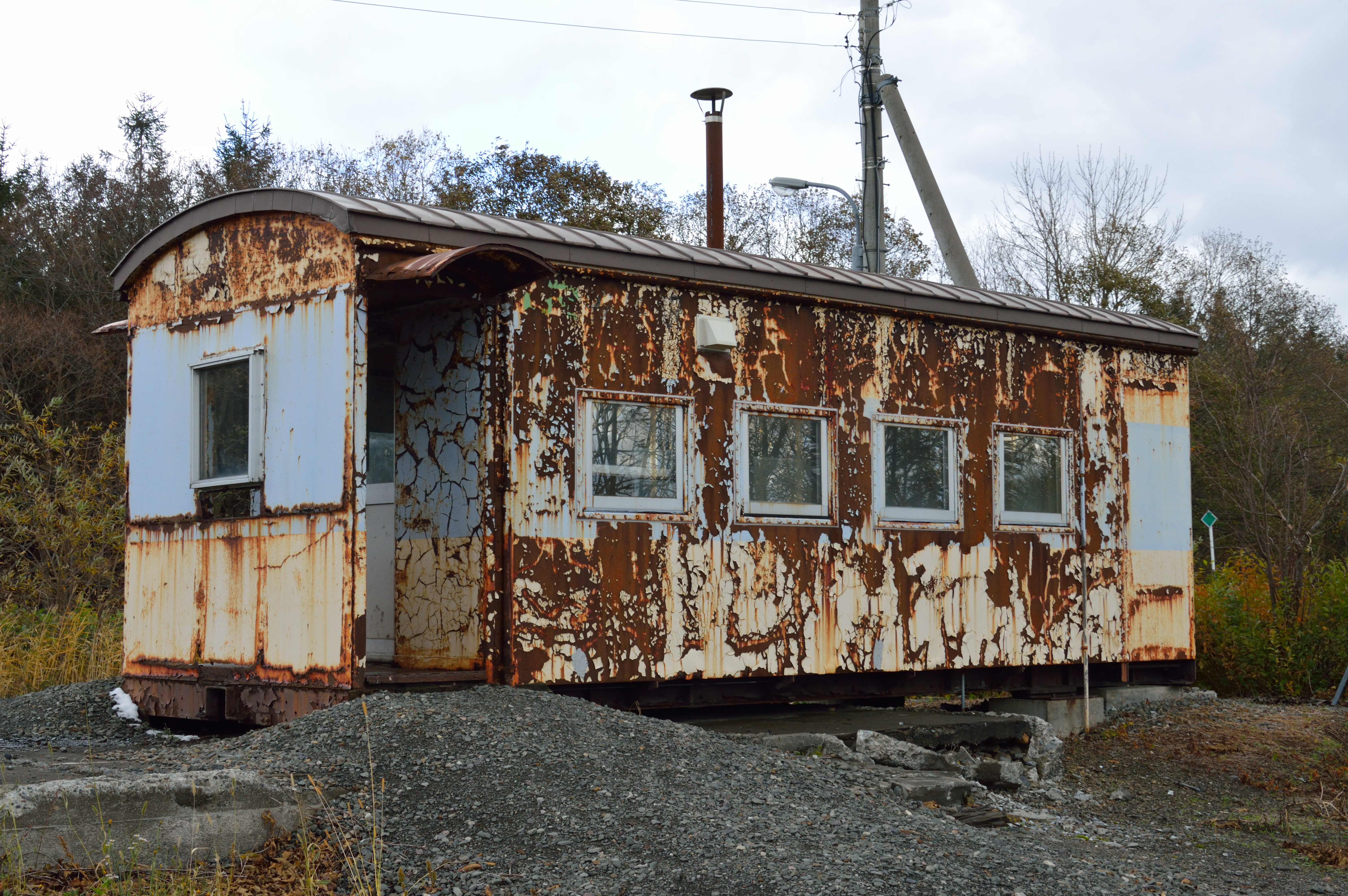 Yasuushi Station on the Soya Main Line in Hokkaido, Japan